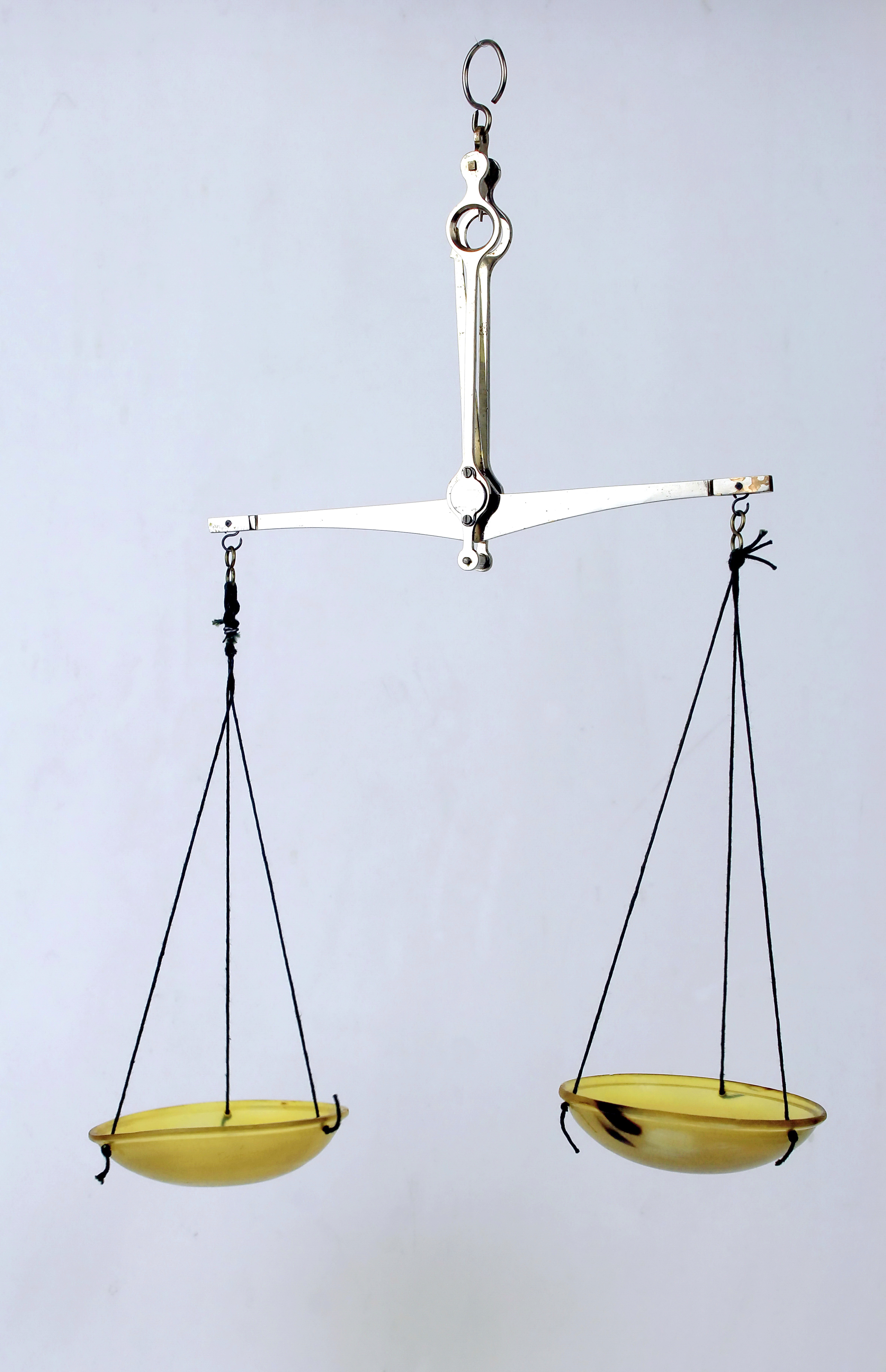 Scales Bagi, Budapest. It is located in Museum of Science and Technology Belgrade.